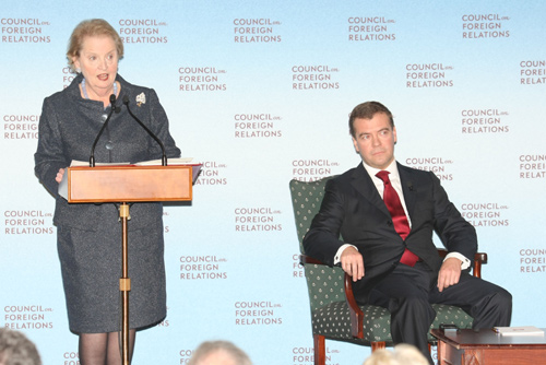 WASHINGTON. At a meeting with members of the Council on Foreign Relations. With ex-US Secretary of State Madeleine Albright.